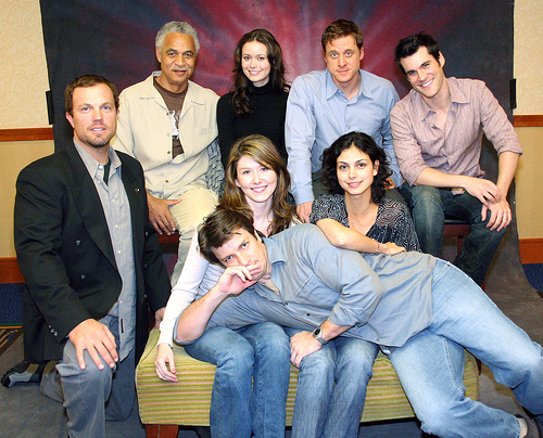 (From left to right, top to bottom) Adam Baldwin, Ron Glass, Summer Glau, Alan Tudyk, Sean Maher, Jewel Staite, Morena Baccarin, and Nathan Fillion at the 2005 Serenity "flanvention".